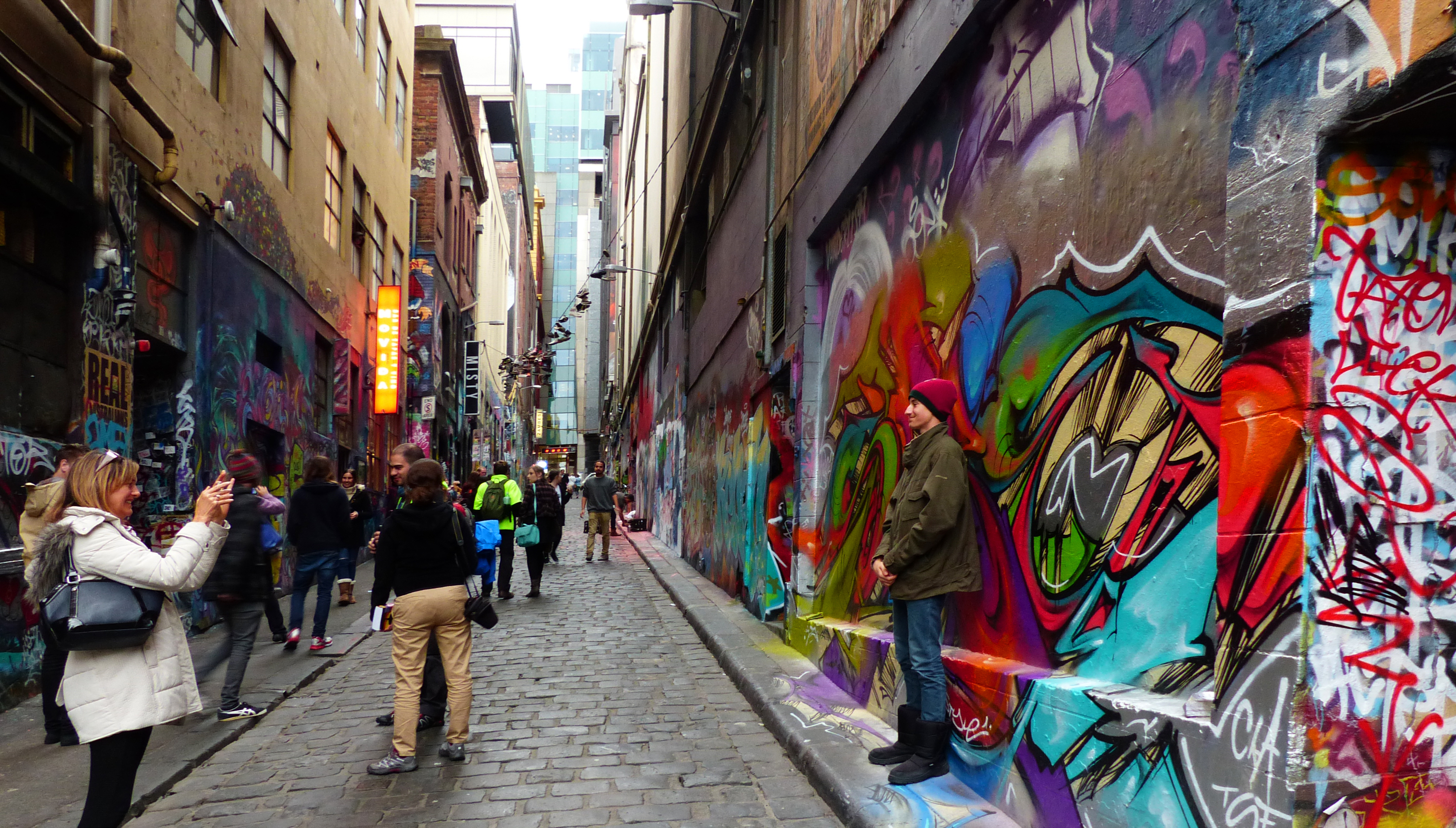 The Street Art Canvas on Hosier Lane - Melbourne, Australia The thing about "street art" is that its dynamic. Its always changing. There may not be a better exhibition of urban art than Hosier Lane in Melbourne, Australia. The pedestrian laneway is located near the city center and Federation Square. Every inch of the walls of the street and its side alleys are covered in spray paint and other mixed-media. It is a site to behold even if you aren't a fan of the graffiti movement. Street art in Melbourne is celebrated and is a defining characteristic of the city. The city is home to some of the best graffiti artists in the world and their creativity abundantly on display on Hosier Lane. A landmark that is not to be missed on any visit to Melbourne! And chances are you'll get to see an artist in action.